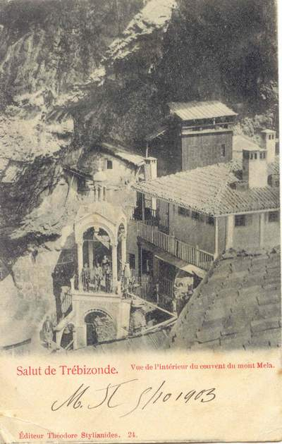 Sümela Monaster, 1903 Trabzon From web site